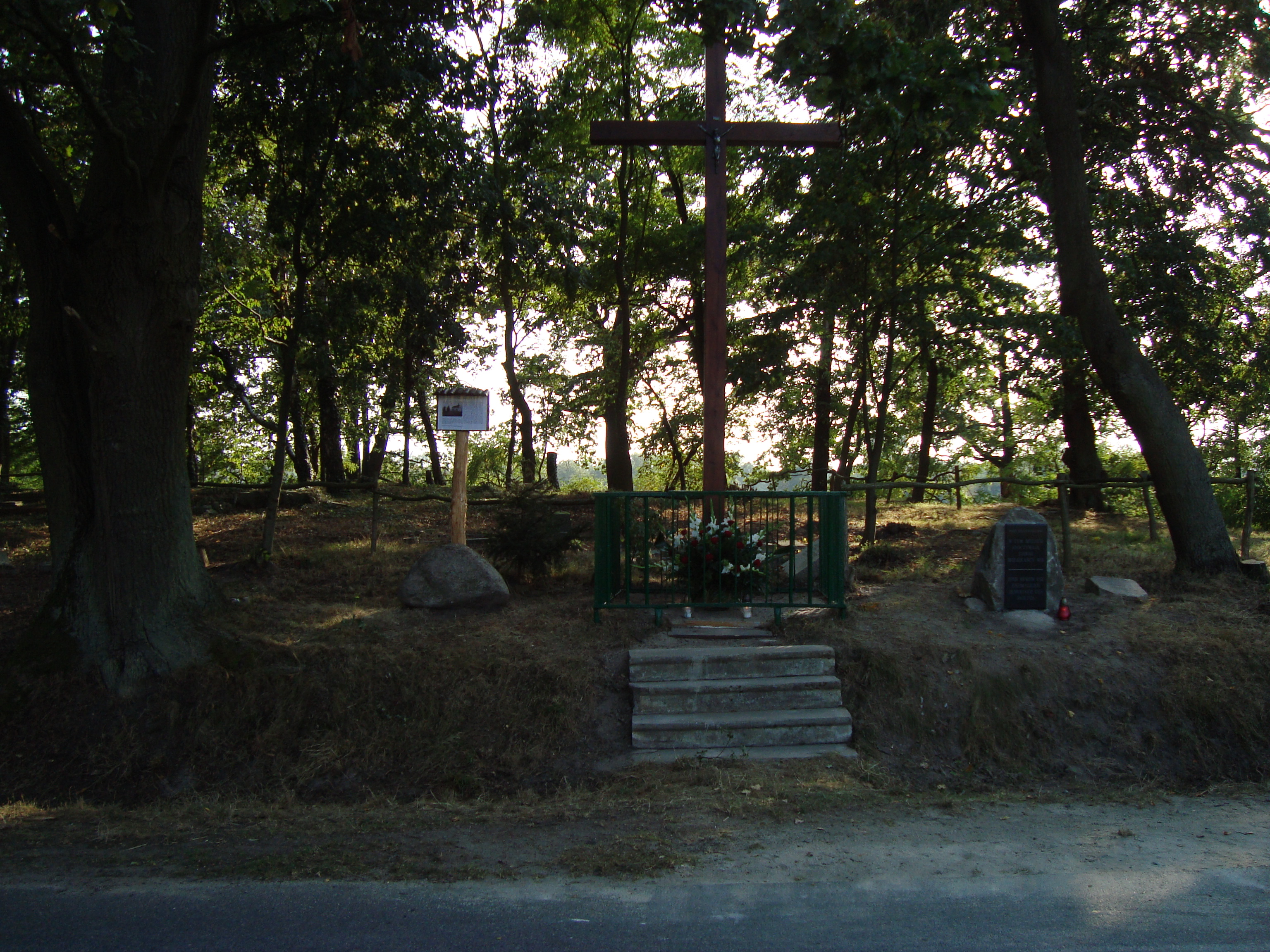 Waly - wreckage of cemetery